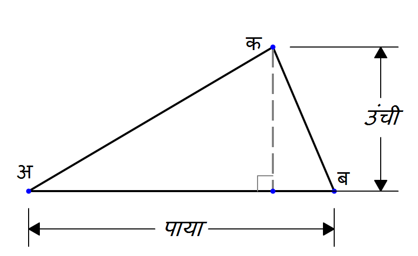 Triangle for Marathi wikipedia